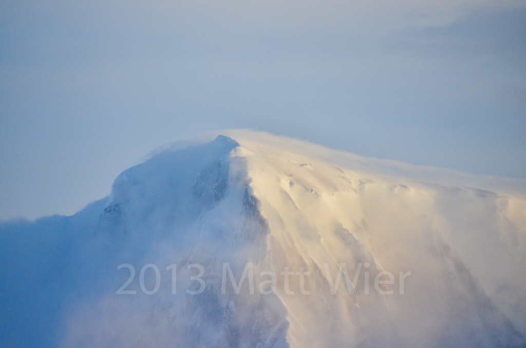 Bitter cold winds race over the summit of Mount Inverleith